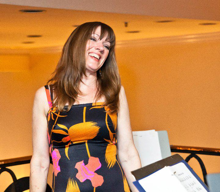 Taken June 2011 at a Jazz performance